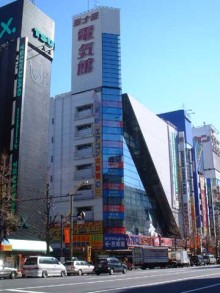 Minami Denki-Kan Akihabara Honten (1984-03-20 – 1994) Later it became: T-ZONE Minami (1994 – 2002-05-31) Minami Musen Akihabara Honten (– 2002-09-09) LaOX Asobit City Akihabara (2002-10 – 2004-04) Don Quijote Akihabara with AKB48 Theater (2004-08 –) References (1983-02-22). "ミナミ無線、秋葉原最大の家電店舗建設へ――５９年３月２０日に開店予定". 日経産業新聞: p. 5. 日本経済新聞社.